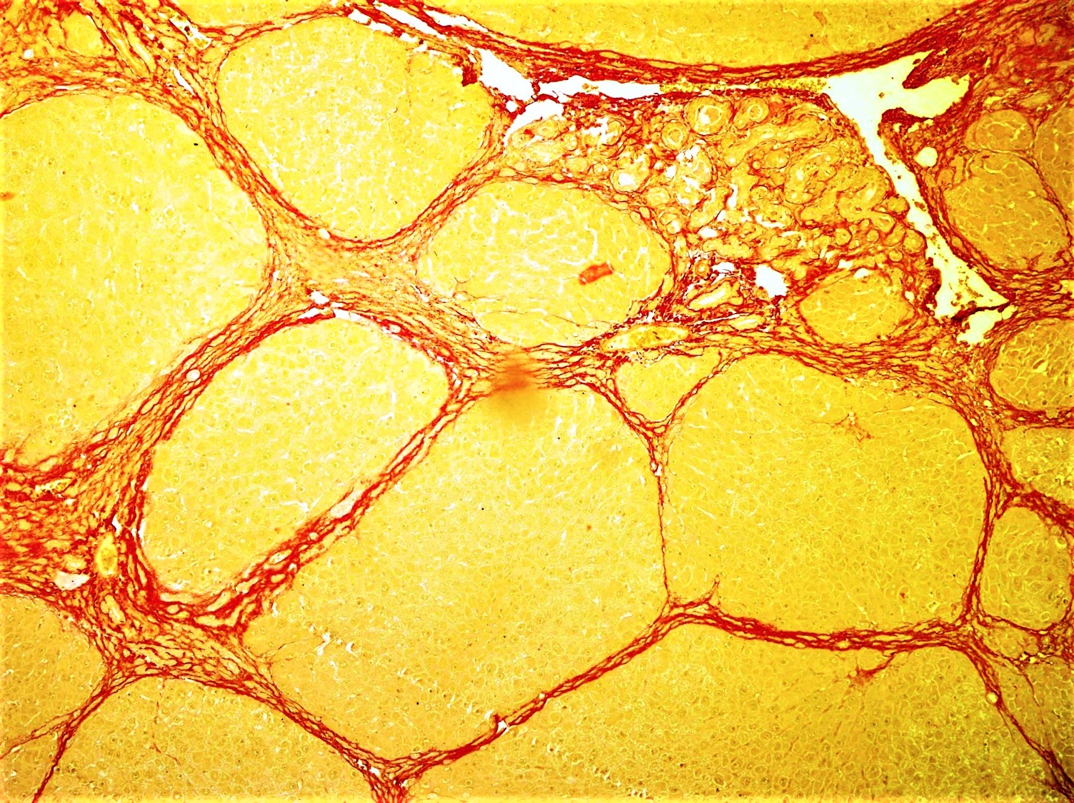 The exposure of thioacetamide for 6 weeks at the dose of 200 mg/kg, twice weekly, intraperitoneally leads to the development of bridging fibrosis in Wistar rats. The liver sections were stained with Sirius red staining